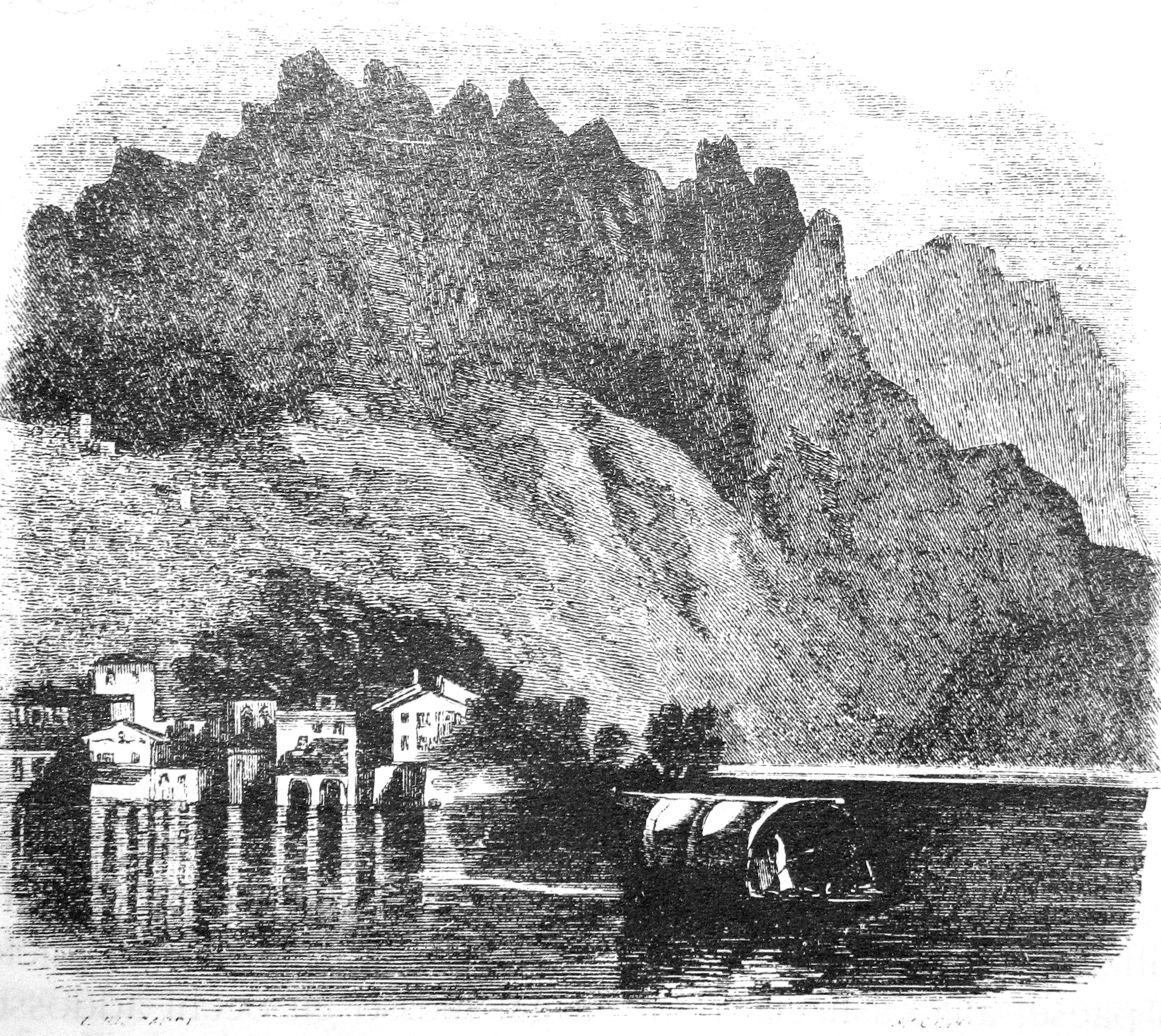 Picture from "I promessi sposi" of don Abbondio of the "Addio Monti" (chapter 8)